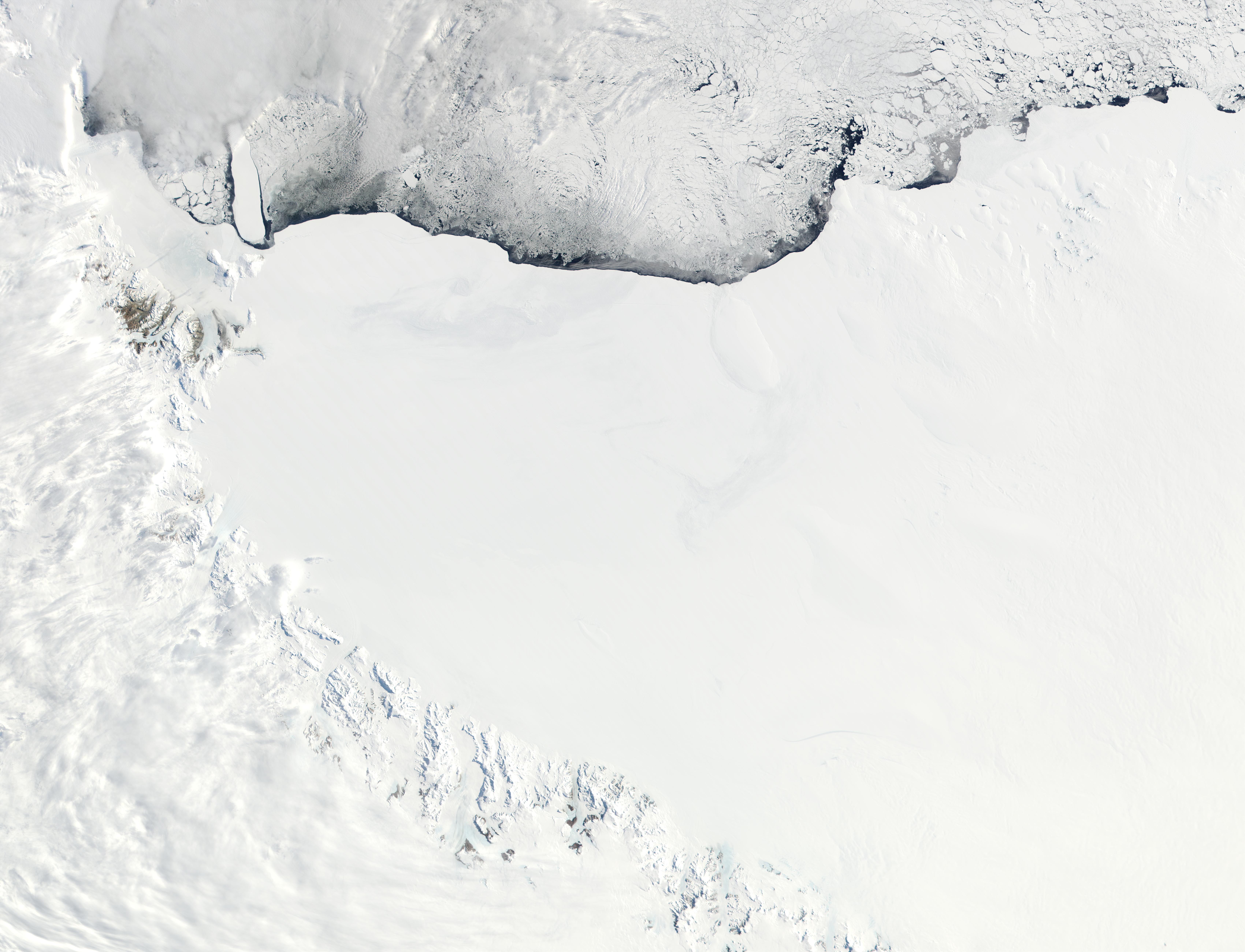 Ross Ice Shelf and Saunders Coast, Antarctica. Original NASA description: "This pair of true-color images from NASA’s Moderate Resolution Imaging Spectroradiometer (MODIS) show the Ross Ice Shelf in Antarctica. The Ross Ice Shelf straddles the 180 degree longitude line. The imagse from November 11 and 12, 2001, show a bit of Victoria Land at image left, including the TransAntarctic Mountains. A rectangular ice berg is anchored near Ross Island. At center and right is the cast Ross Ice Shelf, and at far right is Saunders Coast."